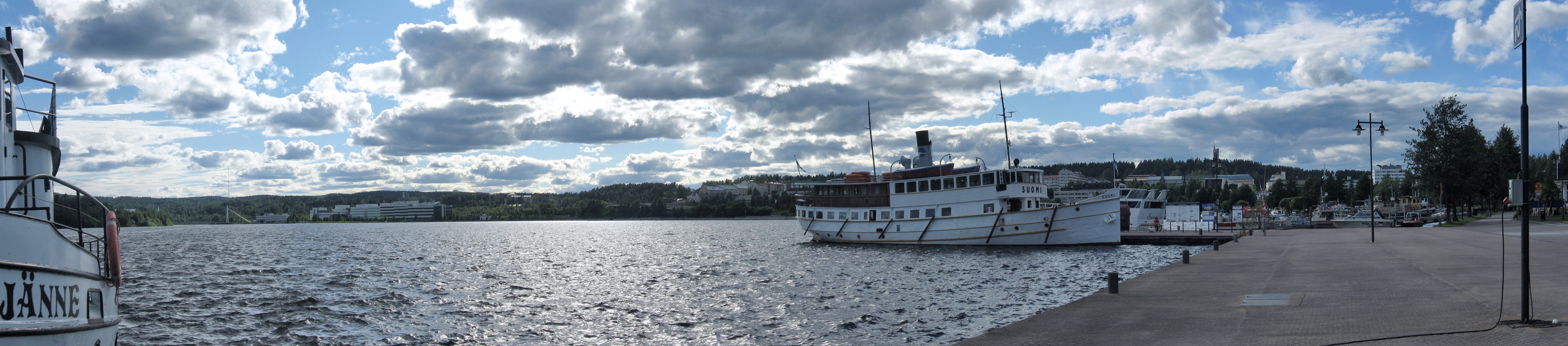 A panorama of the harbour of Jyväskylä, Finland.